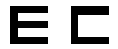 The Dutch ophthalmologist Herman Snellen introduced two kinds of optotypes, the 'Snellen E' and the 'Snellen hook'. Since the two are often confused, they are shown here next to one another. The depictions are taken from a historic paper of Eugen Fick, 1898.